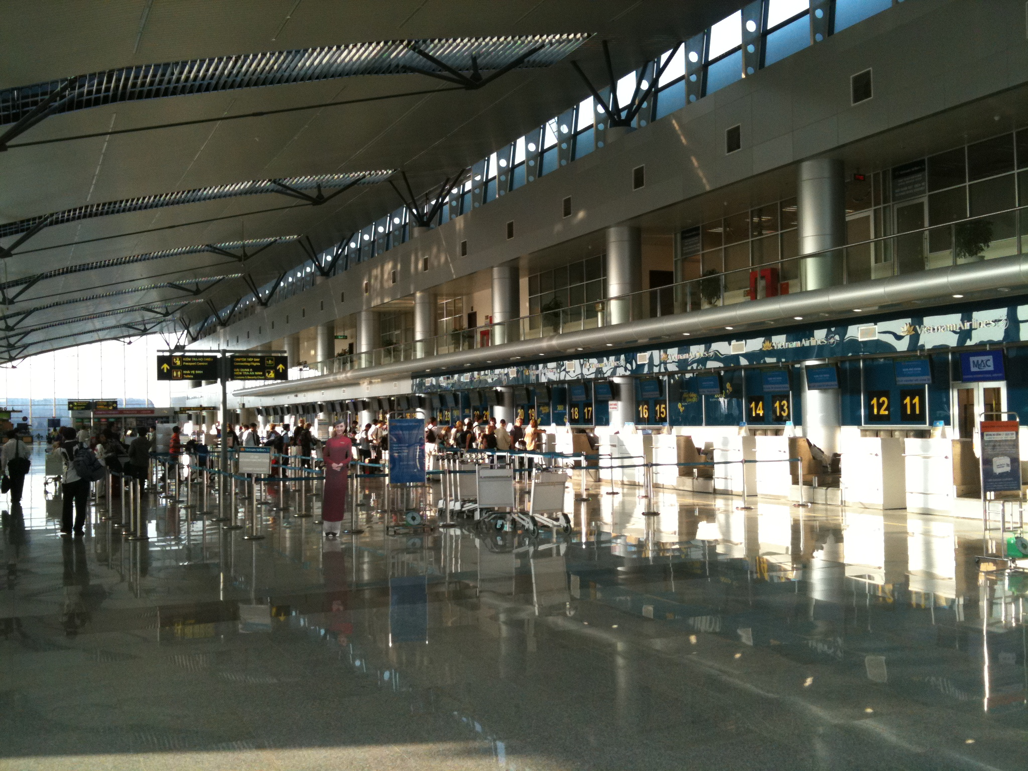 The check-in area in the newly constructed terminal at Danang International Airport.